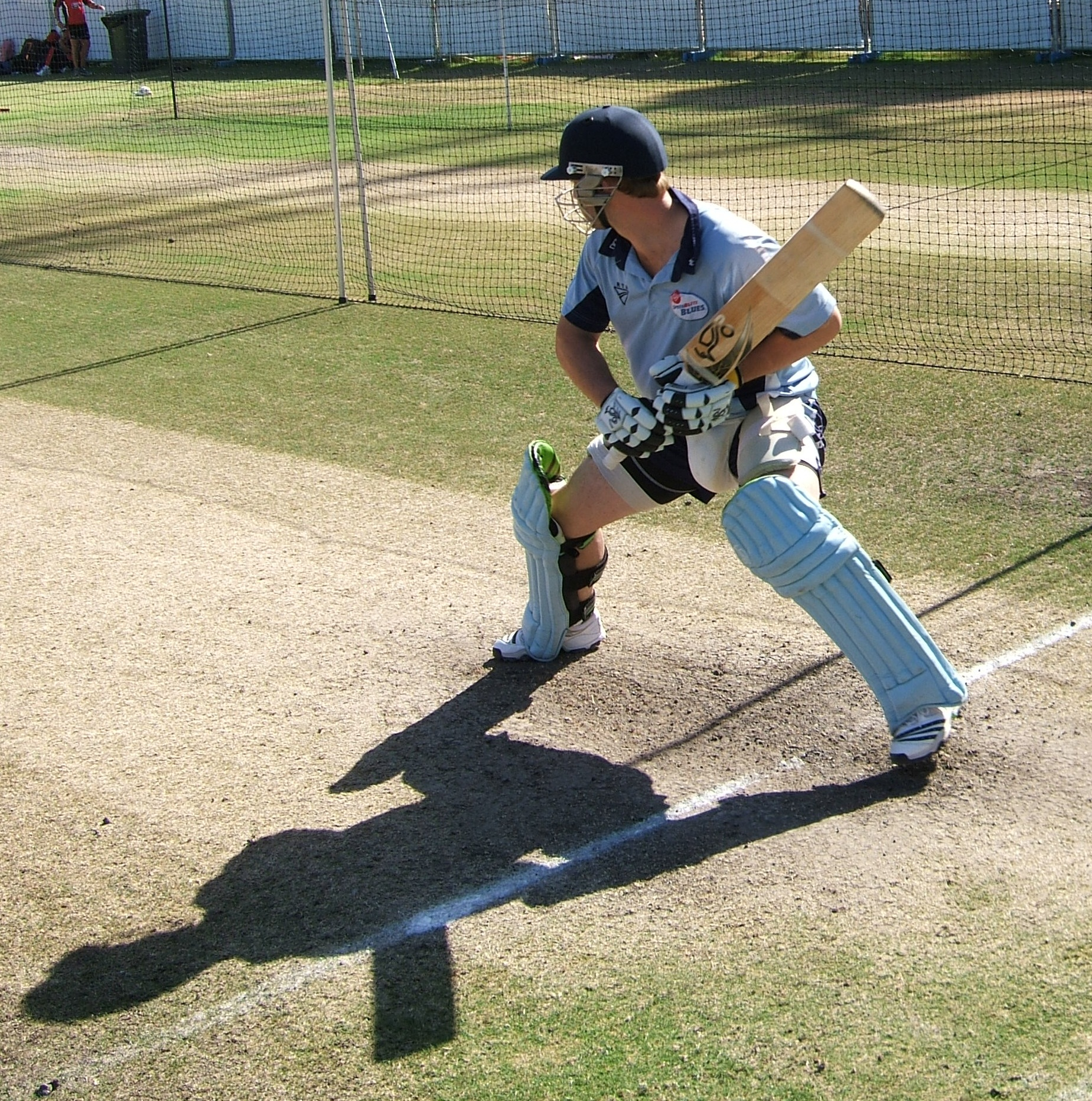 Named person engaging in named action at Adelaide Oval nets/training ground